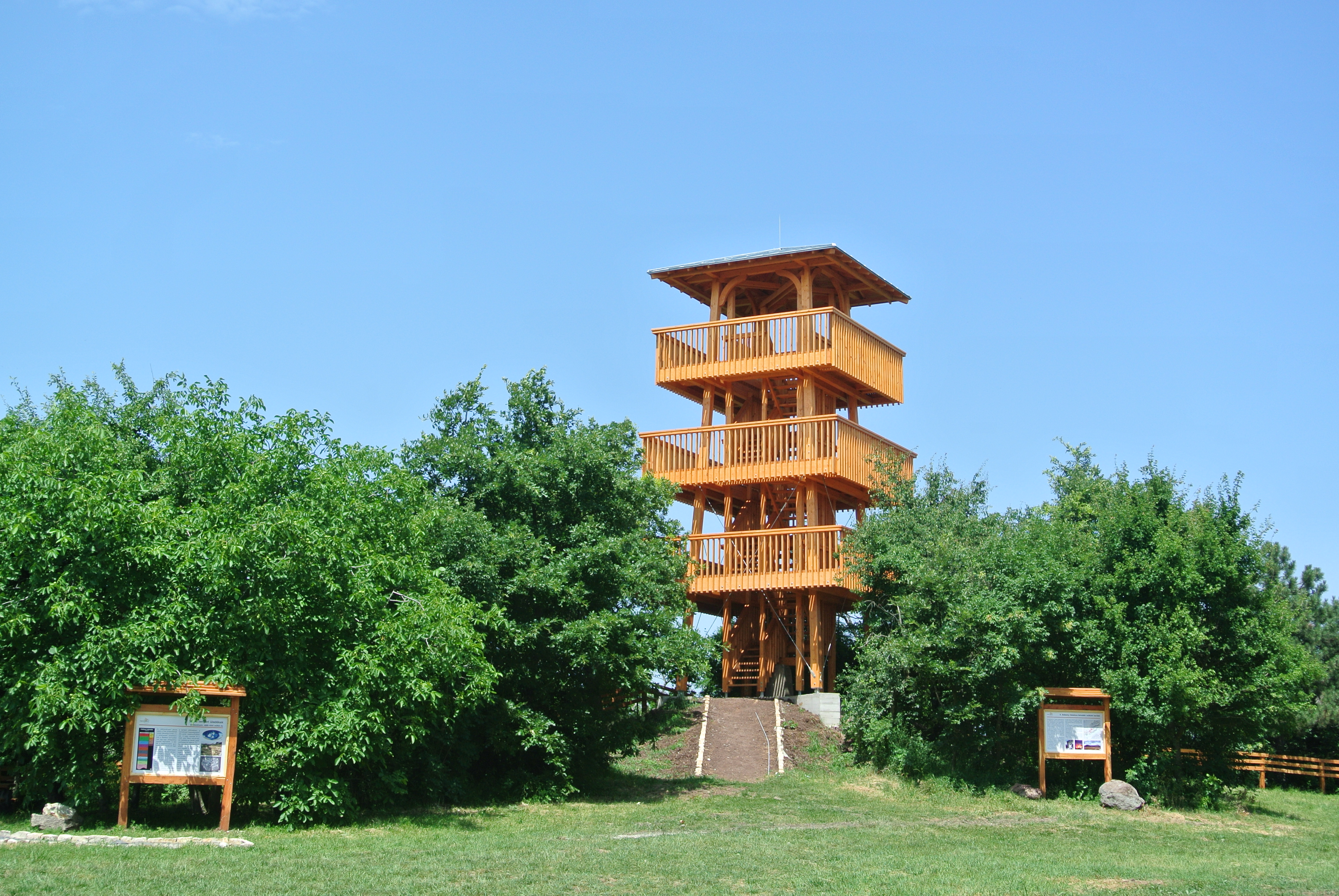 Kossuth Lookout Tower in Mencshely, Hungary